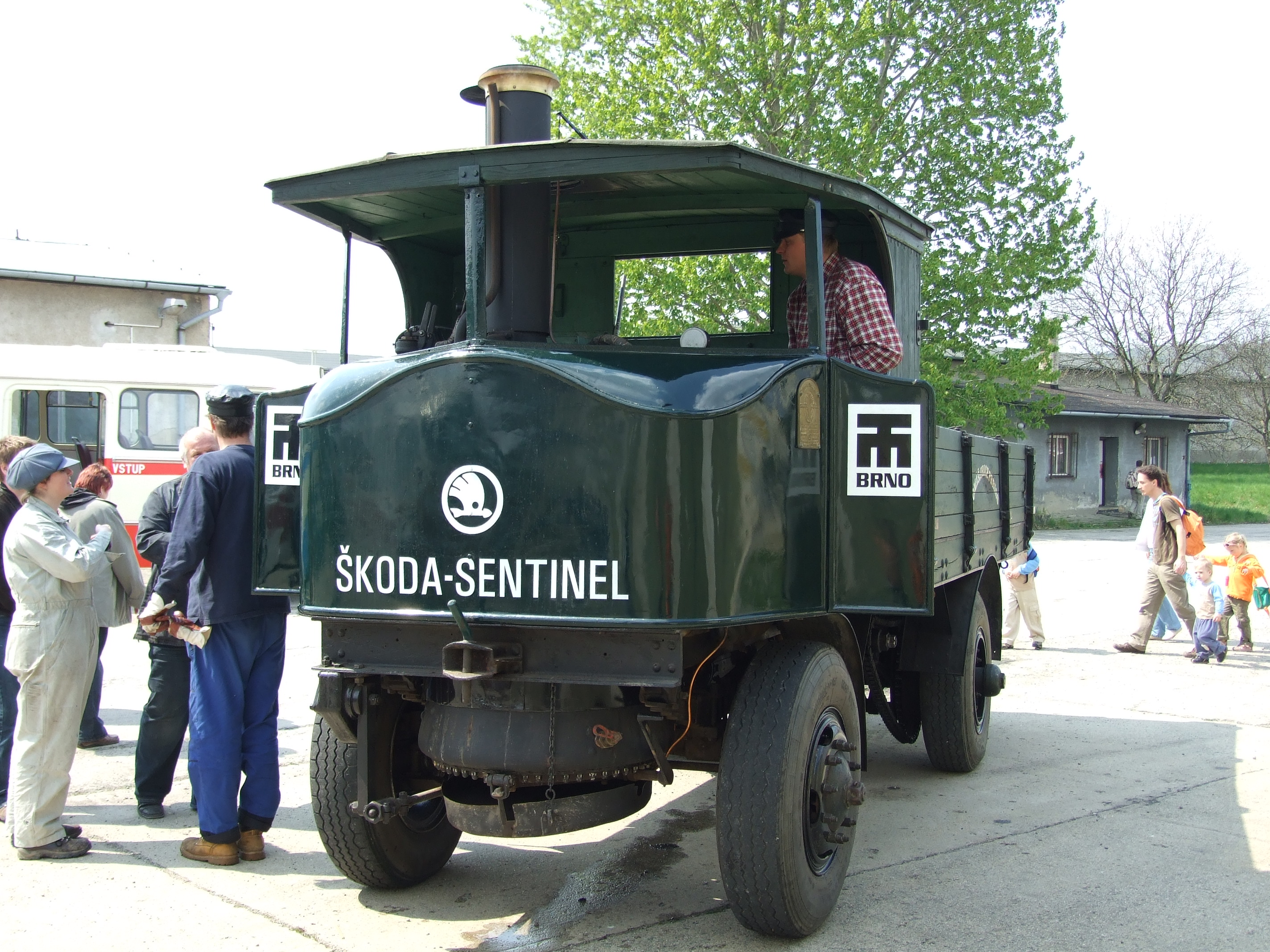 Škoda Sentinel steam wagonhelp